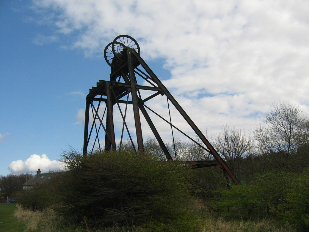 Prestongrange Industrial Heritage Museum, East Lothian, Scotland